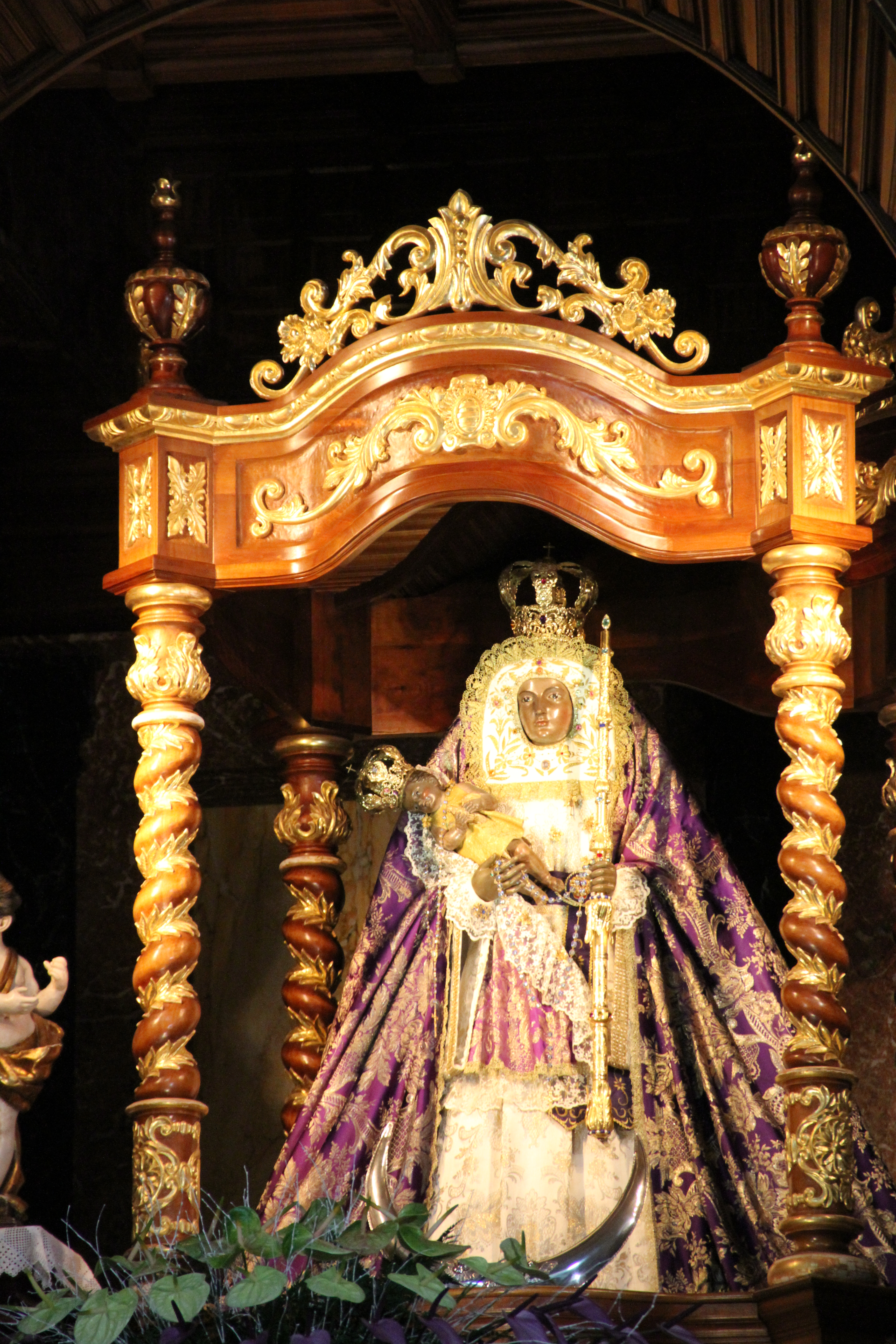 The basilica of the Virgin of la Candelaria, with the statue of the "Black Virgin" who is the protective saint guardian of the whole island group of the Canary Islands.